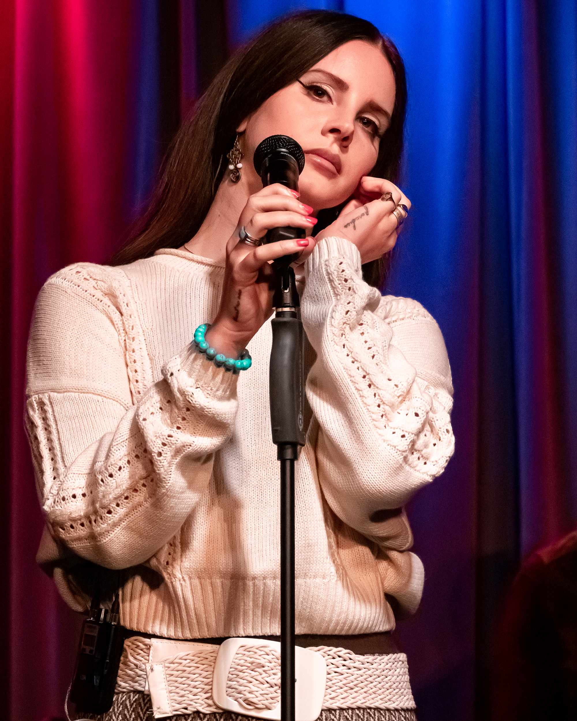 Lana Del Rey performing live at the Grammy Museum in Los Angeles on 10/13/2019.